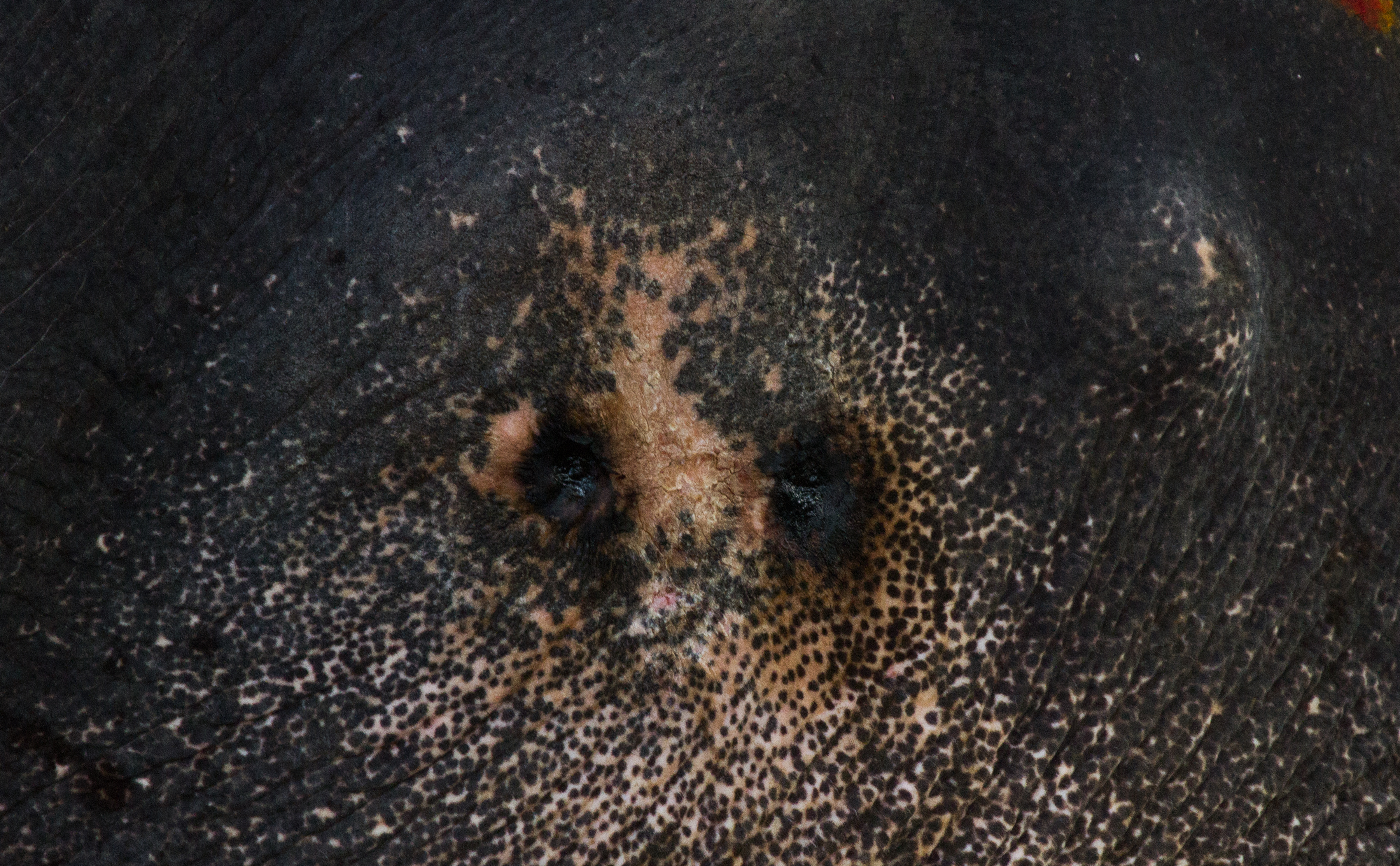 Captive Elephants of Kerala, Cruelty against elephants, Aanapremam, Thrissur Pooram, Festivals of Kerala, Elephants in captivity, Temples of Kerala